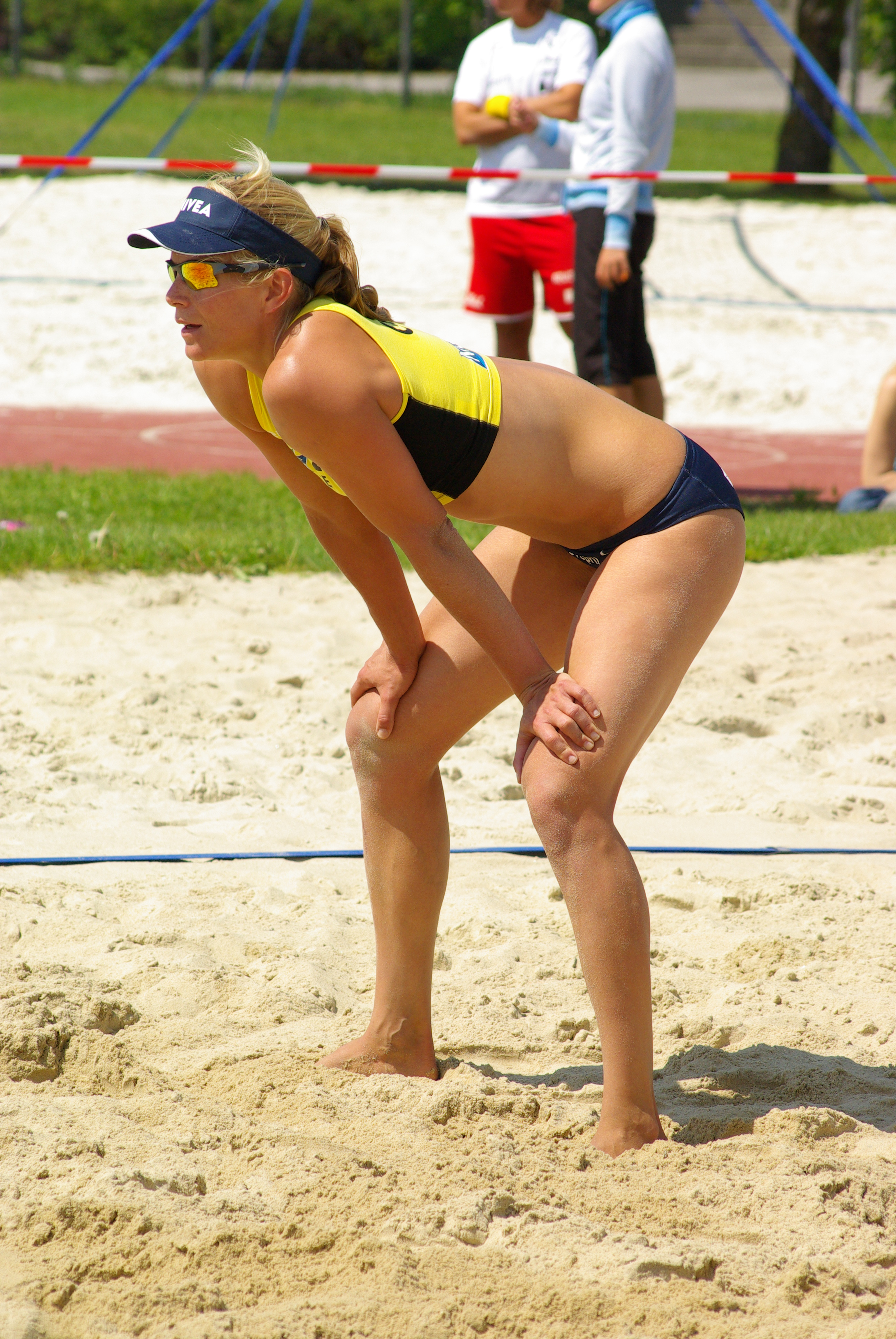 German Beach volleyball player Stephanie Pohl at the European Championship Tour 2008 Austrian Masters in St. Pölten.